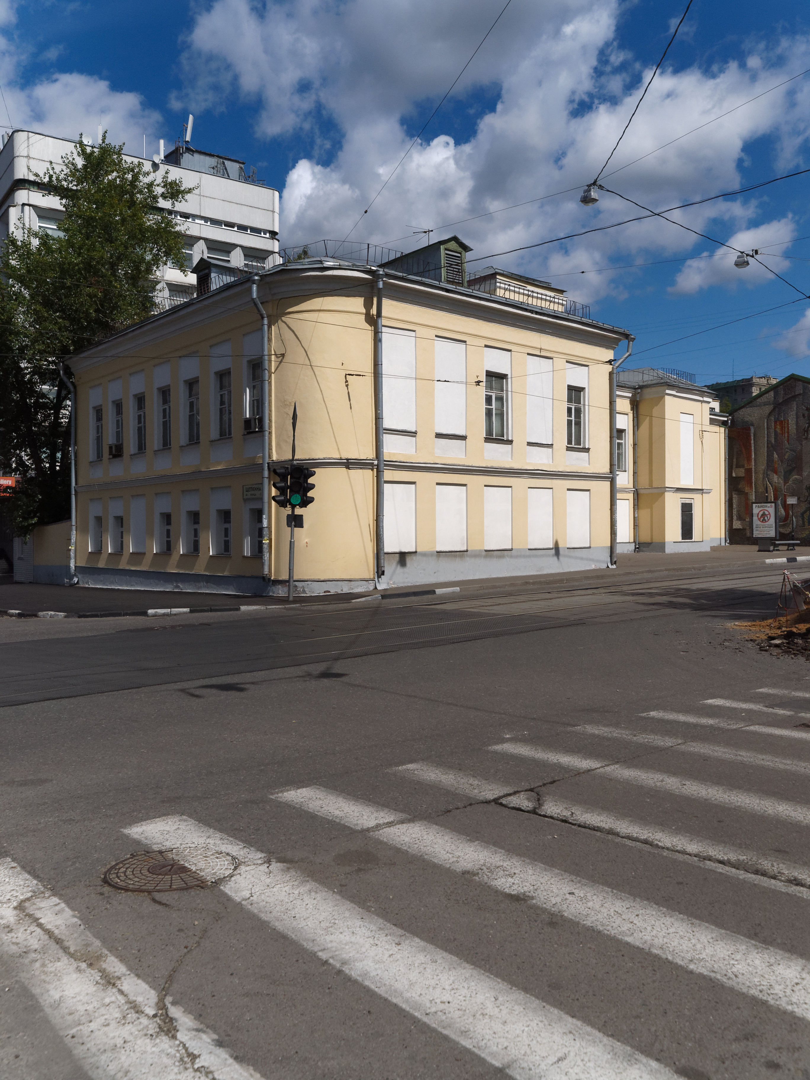 Durova Street, Moscow. Used to be a police and fire station, with a tall watchtower.